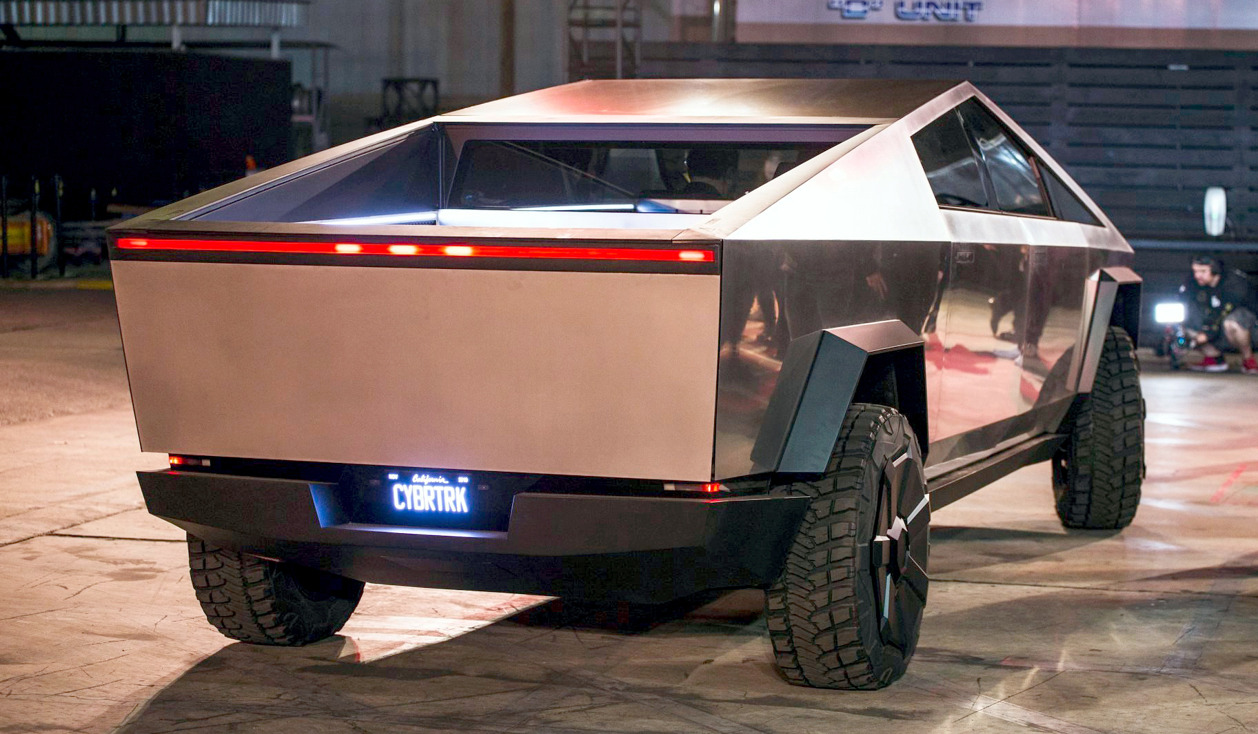 Tesla Cybertruck rear with tailgate and red lightbar.